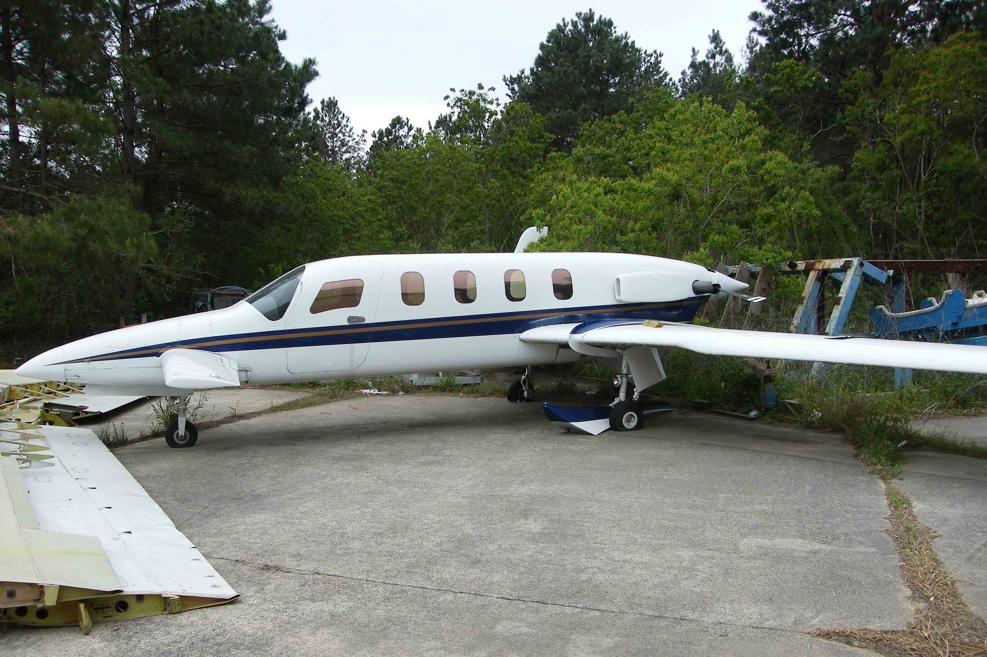 Stored at Hooks Memorial Airport, Houston, Texas in April 2009